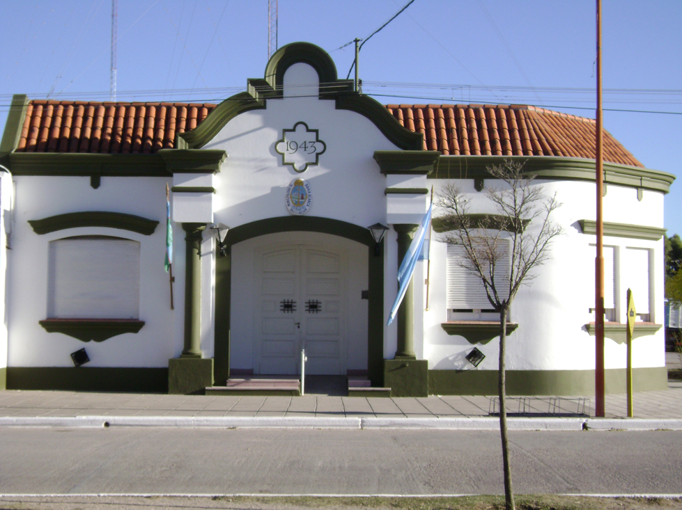 The Municipal Delegation building for General Daniel Cerri, a suburb of Bahía Blanca, Argentina.